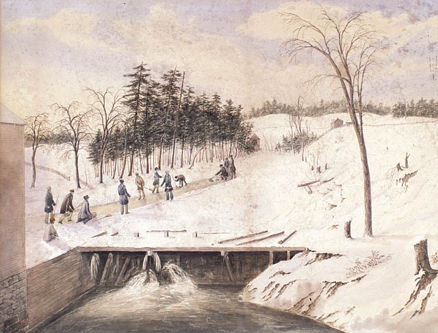 Curling on the Don River, Toronto.label QS:Len,"Curling on the Don River, Toronto."label QS:Lfr,"Partie de curling sur la rivière Don, Toronto."